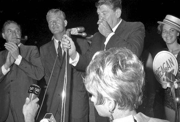 L-R: Governor Claude Kirk, Florida Congressman Edward Gurney and California Governor Ronald Reagan.